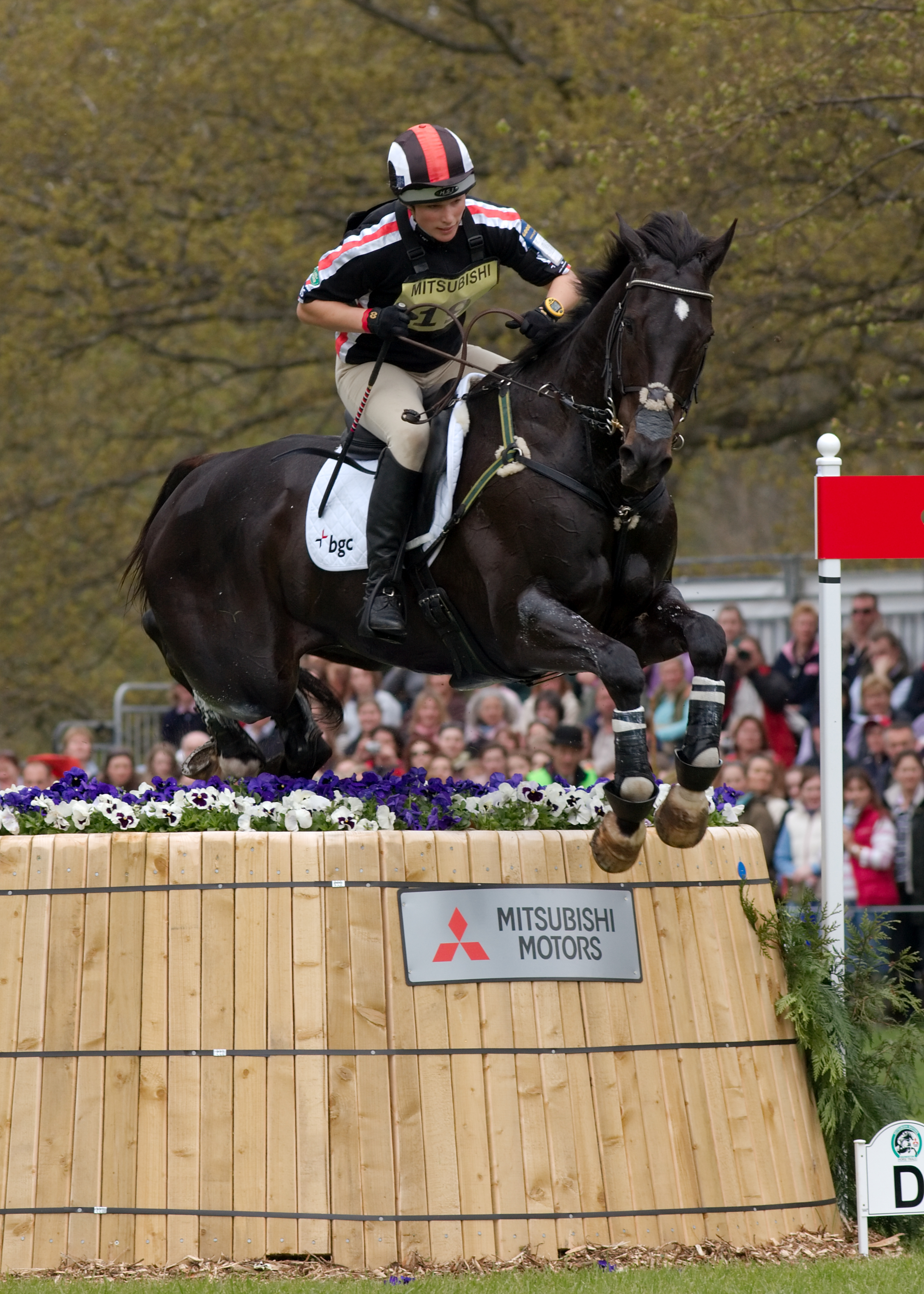 Zara Phillips and Glenbuck clear the Blue Cross Round Tops during the cross-country phase of Badminton Horse Trials 2008.